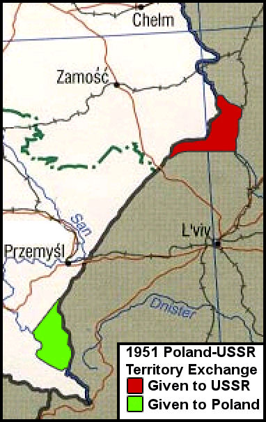 Illustration of Polish-Soviet border change in 1951